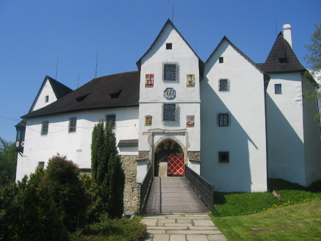 castle Seeberg in Czech Republic, Region Karlovy Vary